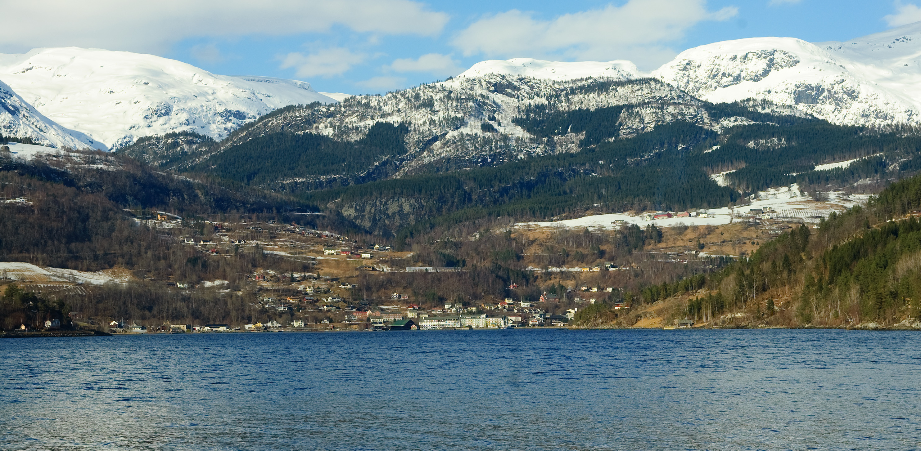 View towards the village centre Brakanes of Ulvik, Norway.